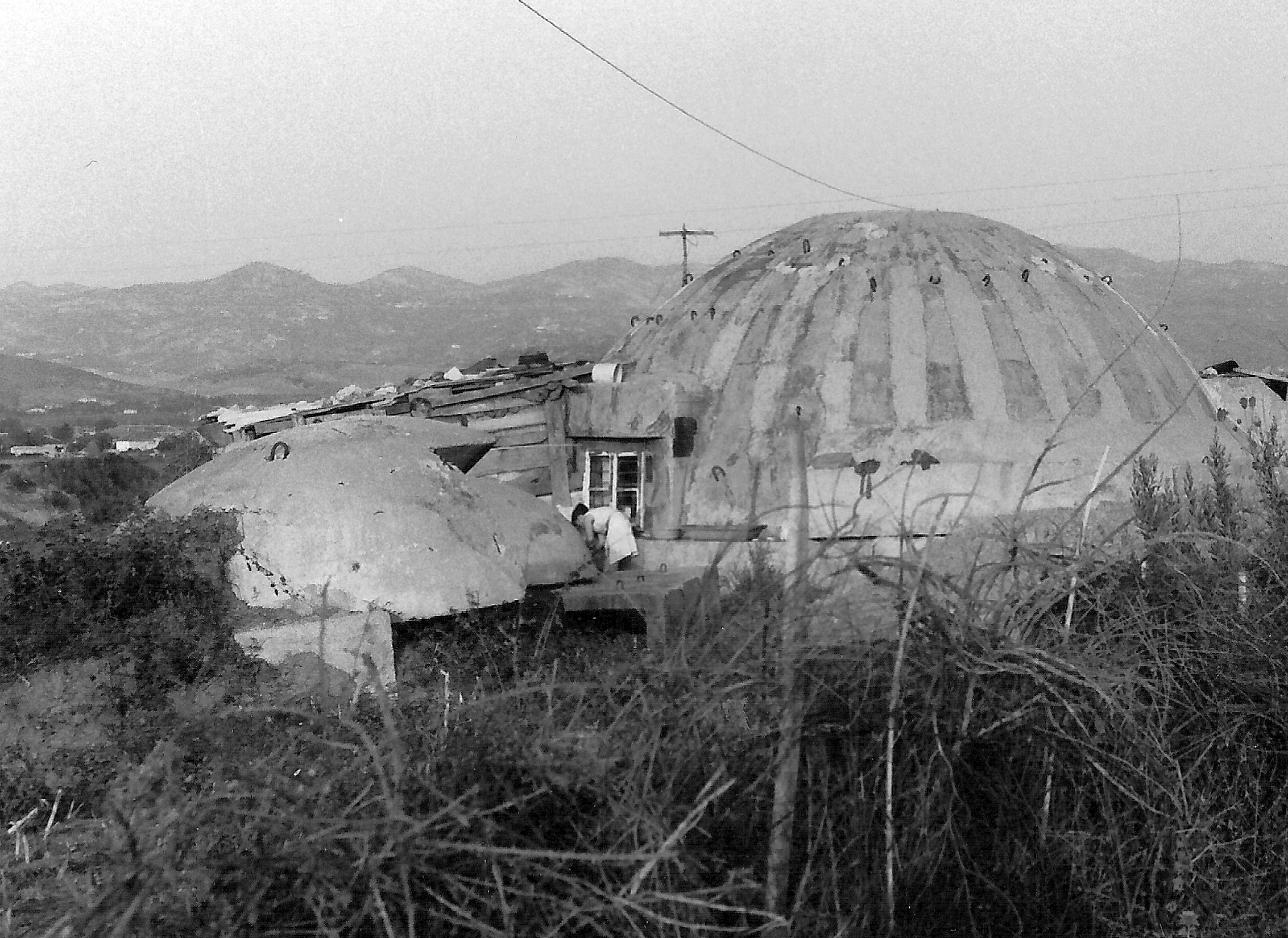 A bunker in Albania that serves as home for a poor family. Photo from 1994.